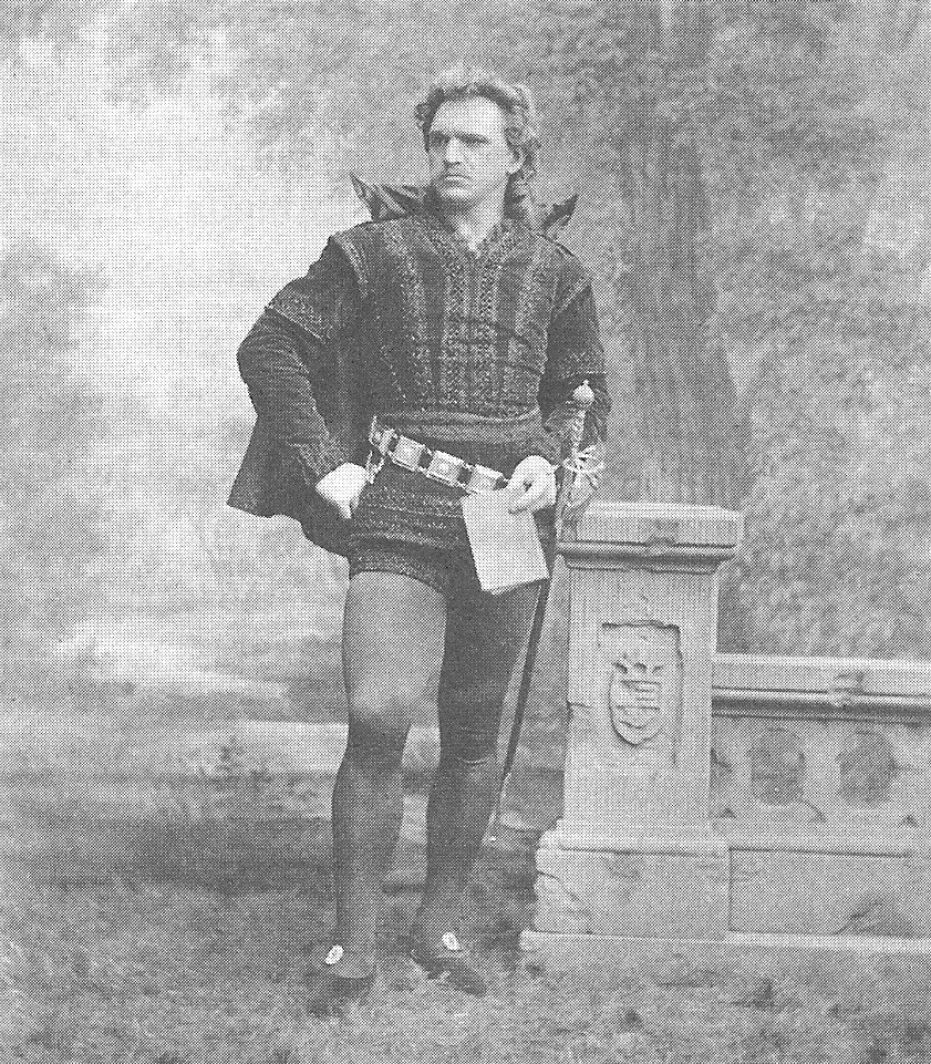 The Swedish actor August Lindberg as Hamlet 1879.